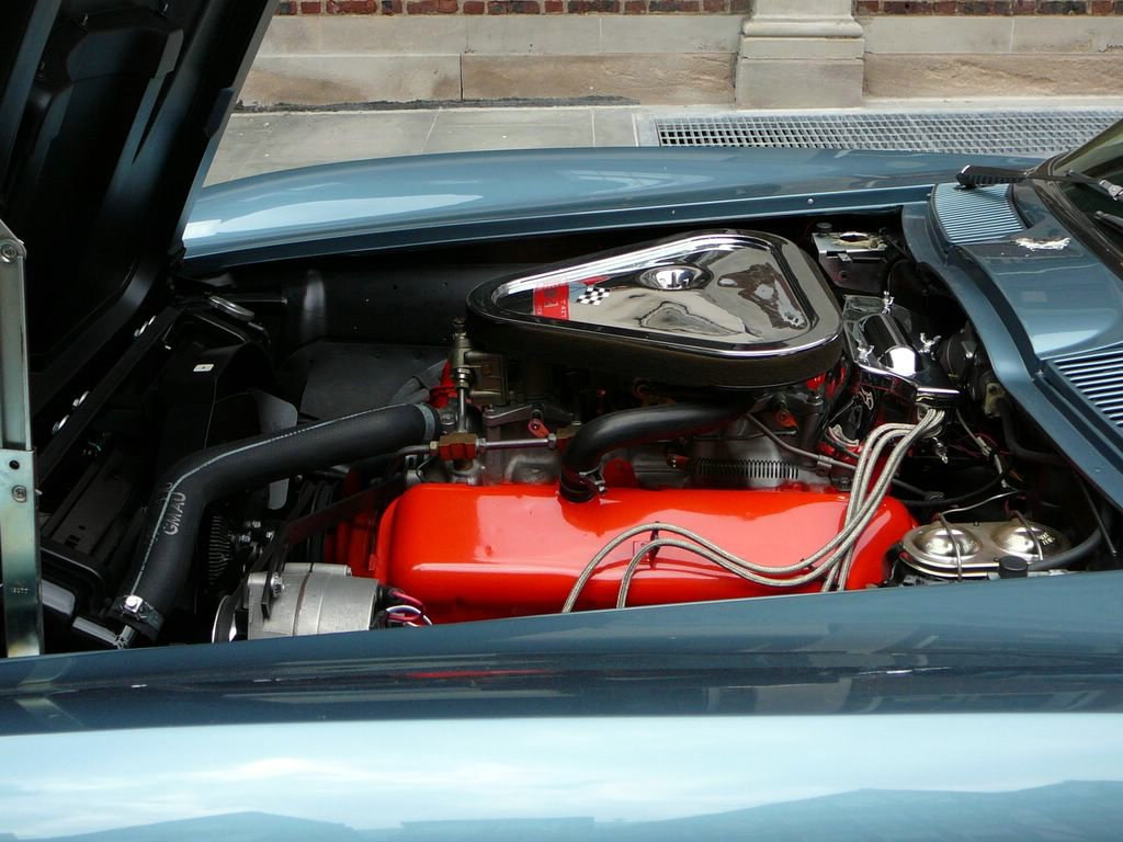 L71 427 in a 1967 Chevrolet Corvette.